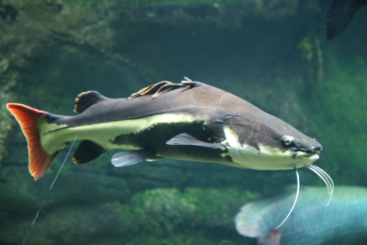 The Red-tailed Catfish is native to the Amazon, Orinoco, and Essequibo river basins of South America and found only in fresh water. The Red-tailed Catfish has a broad head with a wide mouth. Its body is primarily dark gray with small darker gray spots. The ventral surface is paler. A lateral white band starts at the caudal peduncle and runs anteriorly, tapering to end anywhere from midway along the body to just behind the operculum. The caudal fin is red or orange, giving the fish its common name. Upon maturity these fish can reach a length of 1.3 m (4 ft) total length, and weigh over 44 kg (97 lb).